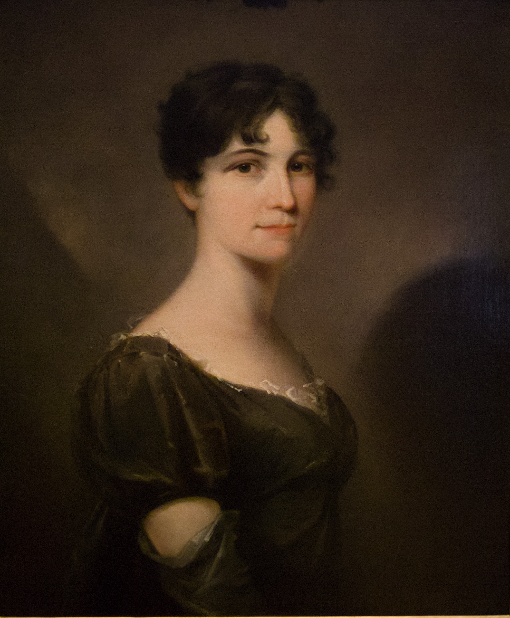 «Mrs. Arbuthnnot». Hacia 1805. Óleo. Inv 2513.